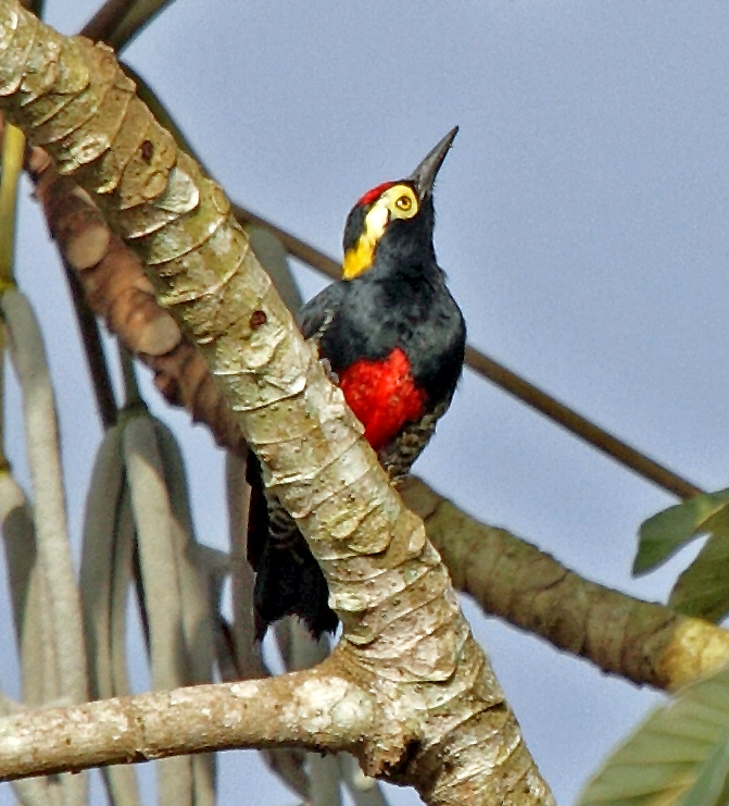 Brazil, Rondônia, Cacoal.